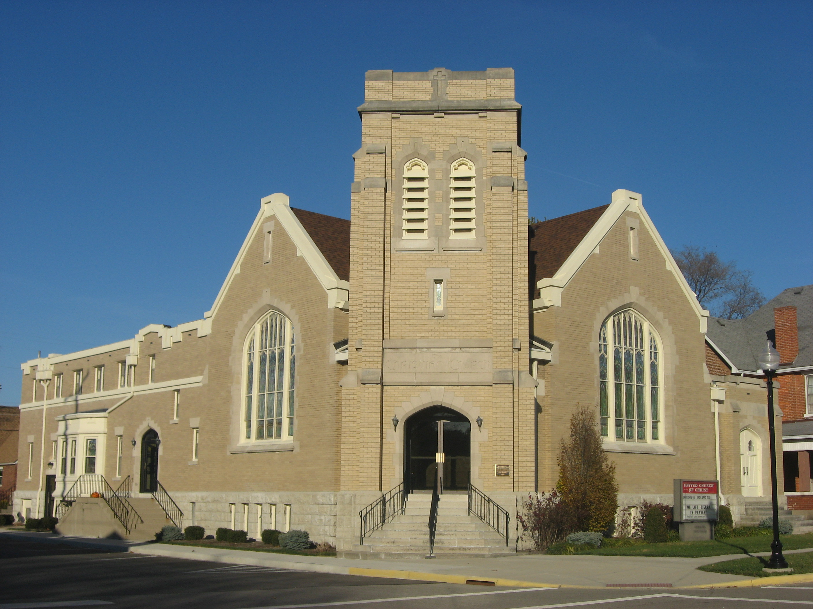 Front and western side of the Pleasant Hill United Church of Christ, located at 10 W. Monument Street (State Route 718) in Pleasant Hill, Ohio, United States. Built in 1911, it is listed on the National Register of Historic Places.